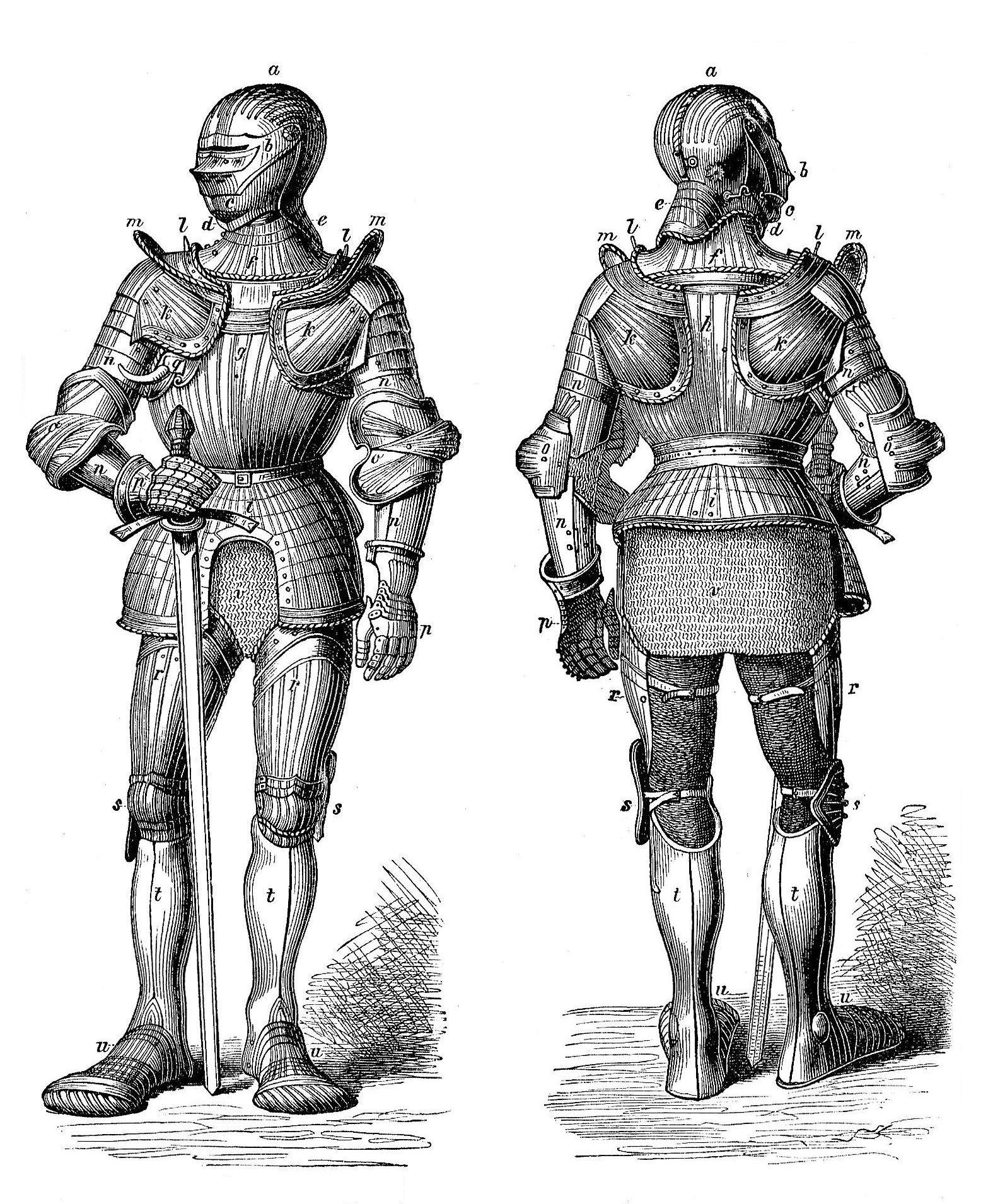 Parts of armour, front and back. - German armour at the time of German Emperor Maximilian I. (15th century)